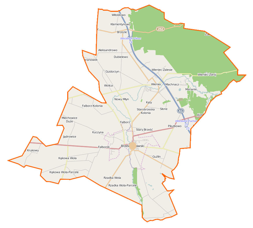 Map of Gmina Brześć Kujawski, Poland This map of Brześć Kujawski (gmina) was created from OpenStreetMap project data, collected by the community. This map may be incomplete, and may contain errors. Don't rely solely on it for navigation. Border coordinates52.709918.7437←↕→19.044852.5450